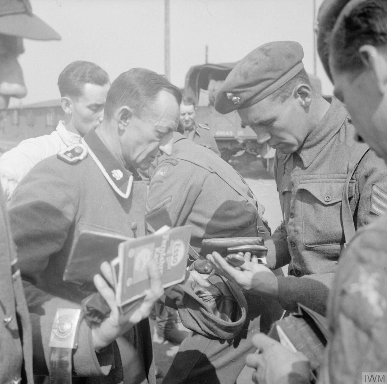 The Schutzstaffeln (ss) An SS NCO being searched at Belsen Camp. 17 April 1945.